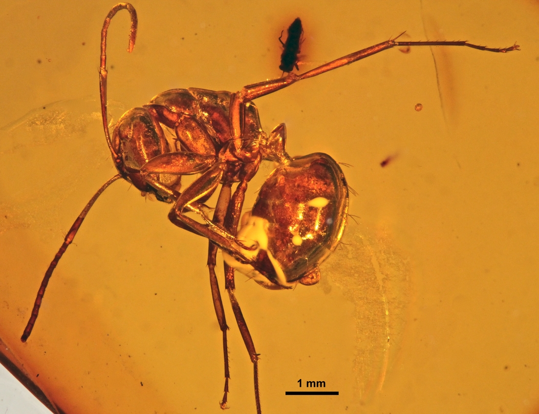 Profile view of a Camponotus mengei worker. Middle Eocene; Baltic amber, Samland Peninsula, Kalingrad, Russia Museum fur Naturkunde Berlin, Germany. Specimen MBI5831